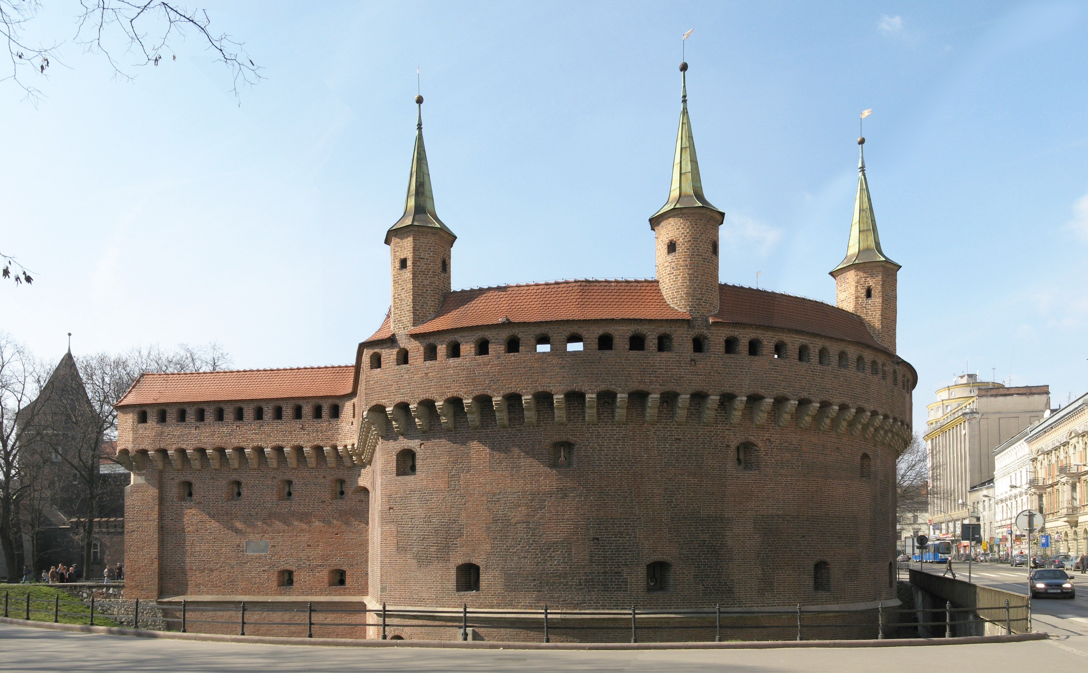 Barbakan in Kraków